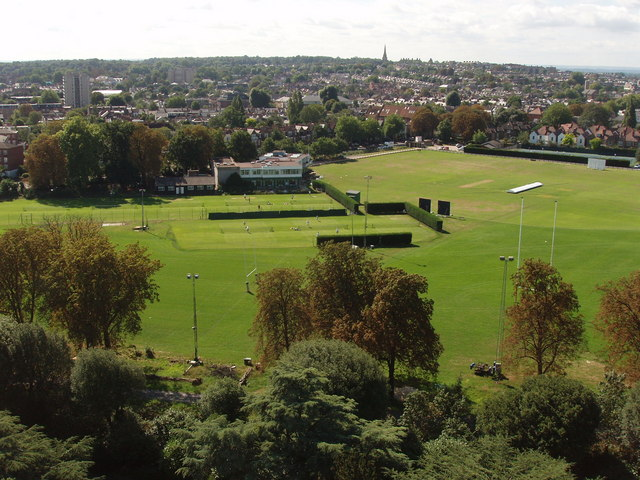 Old Deer Park sports grounds, view south from Kew Gardens pagoda. Richmond Old Deer Park hosts a number of sports clubs including London Welsh Rugby Football Club and Richmond Lawn Tennis Club. See the Old Deer Park website which has links to the clubs which use the grounds and buildings. The church on Richmond Hill is on the horizon towards the right of the photo.